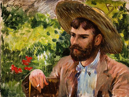 Portrait of John Leslie Breck